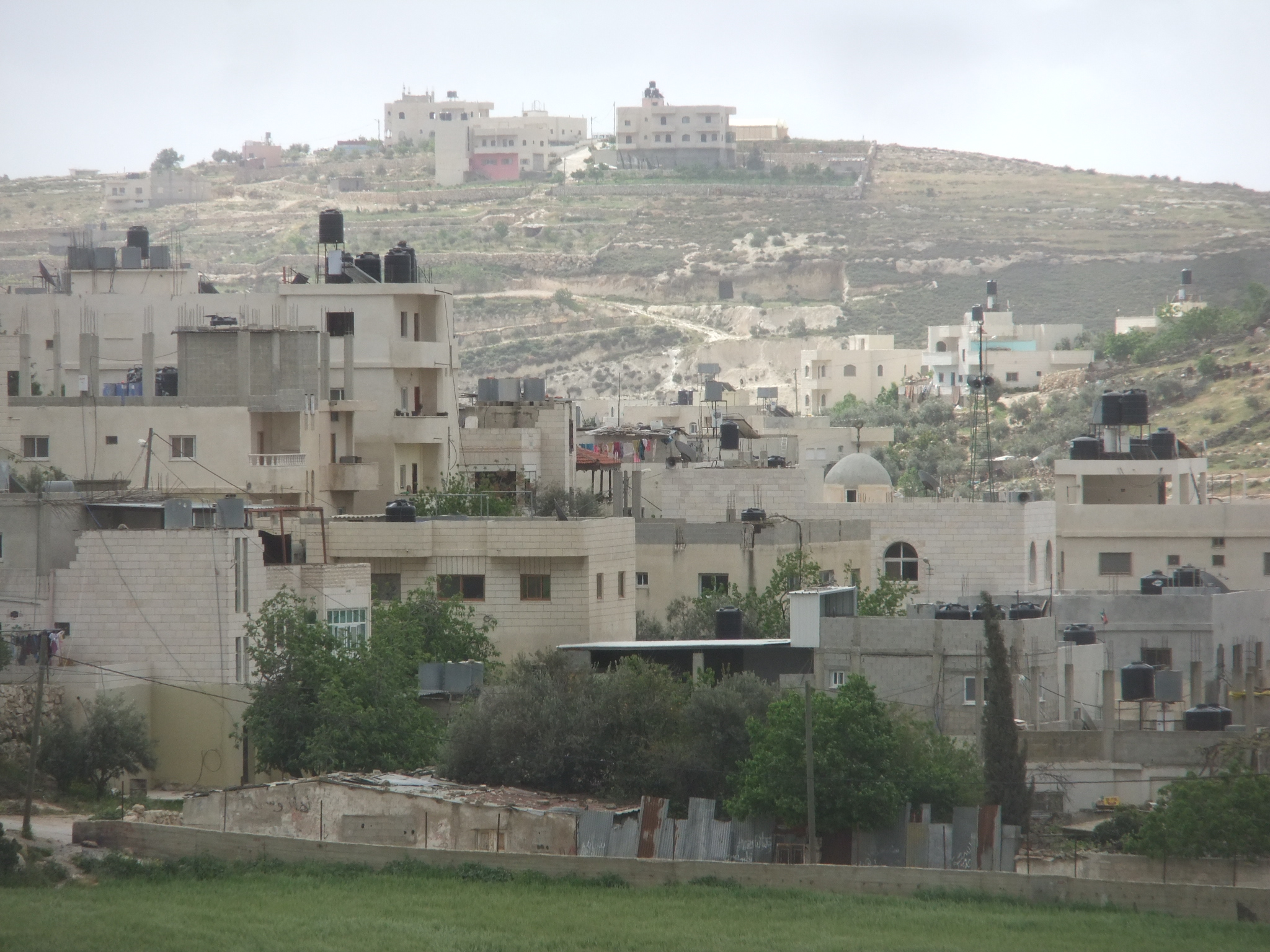 Fawwar, Hebron